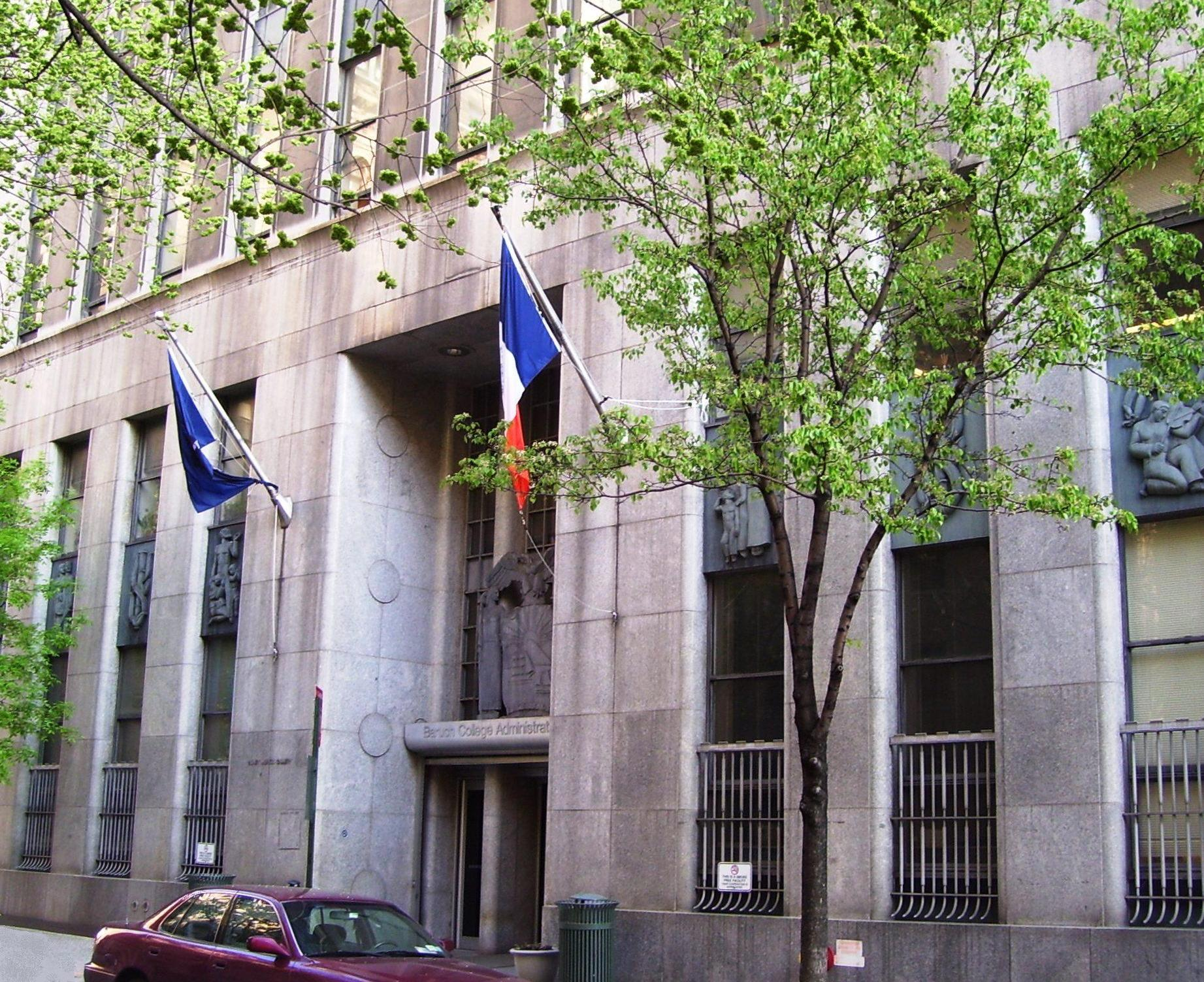 Baruch College Administrative Center at 135 East 22nd Street, Manhattan New York City, was originally built as the Domestic Relations Court Building, and was connected to the Children's Court Building next door (also now used by Baruch). Designed by Charles B. Meyers. (1937-1939)